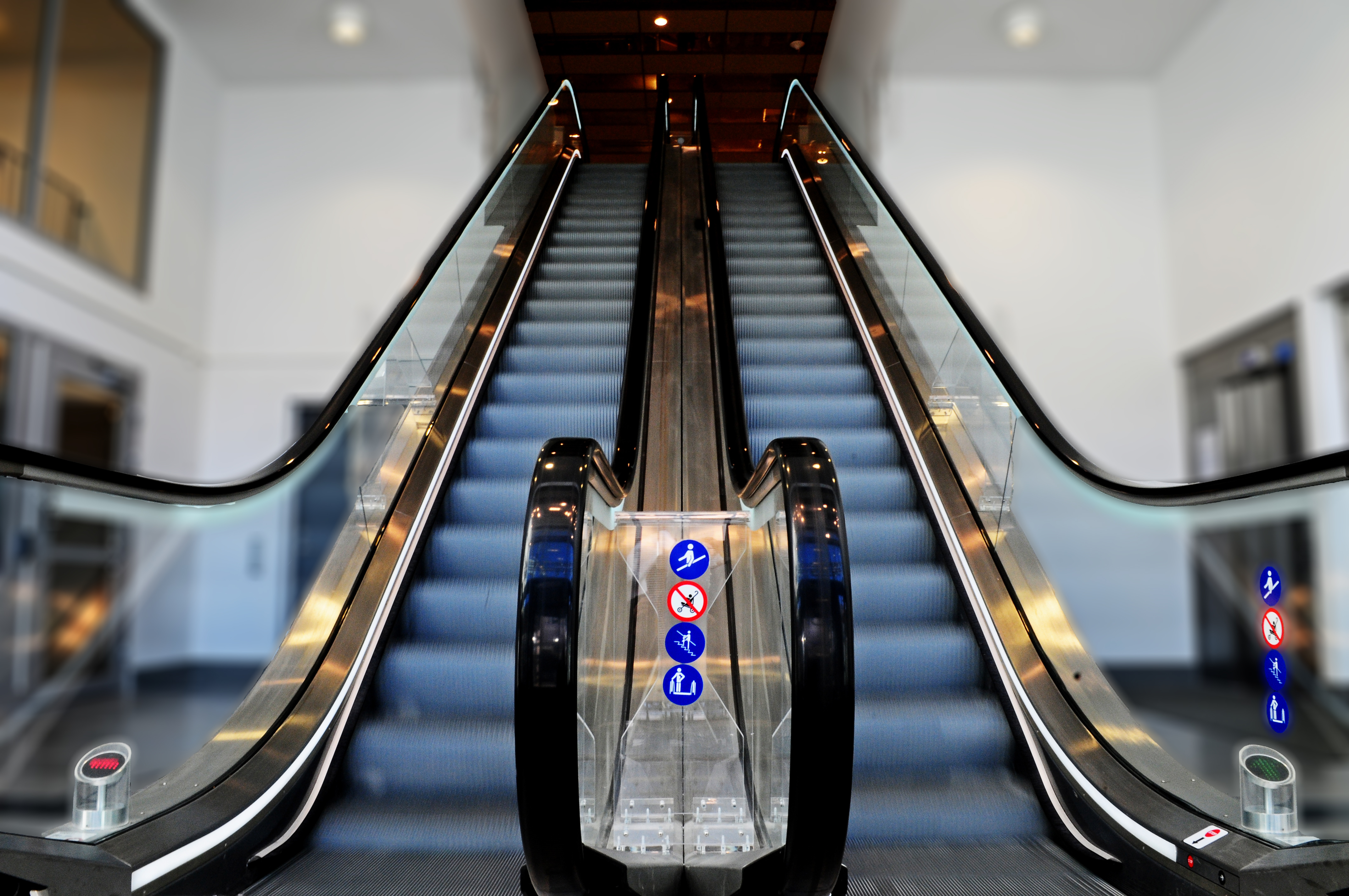 Otis Escalator 506 NCE in Norrköping, the quarter named "Happiness" there the Swedish Transport Agency is based. The building is ownd by Fastighets AB LE Lundbergs.